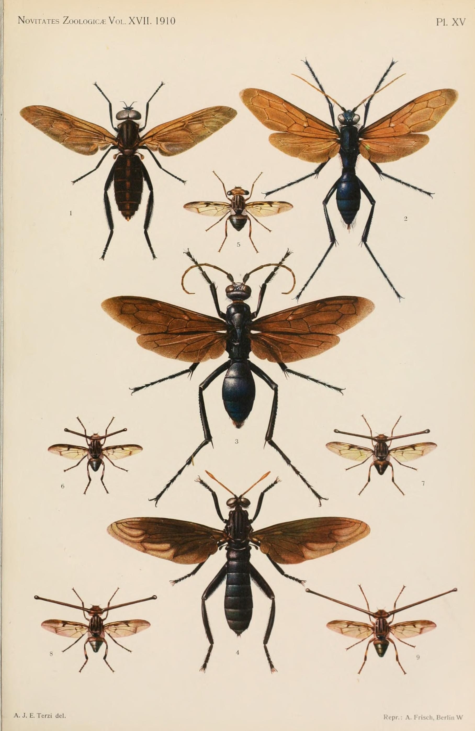 Austen, E.E. (1910) A new species of the dipterous genus Achias Fabr. (Family Ortalidae). Novitates Zoologicae 17: 457-459 PlateXV text Figure 1 Rhaphiorhynchus rothschildi Austen male Pantophthalmus rothschildi Diptera:Pantophthalmidae Figure 2 Pepsis elevata Fabricius Hymenoptera:Pompilidae Figure 3 Pepsis heros Fabricius Hymenoptera:Pompilidae Figure 4 Mydas praegrandis Austen female Diptera:Mydidae Figure 5 Achias rothschildi female Figure 6- 9 Achias rothschildi male Diptera:Platystomatidae (9 is the holotype)